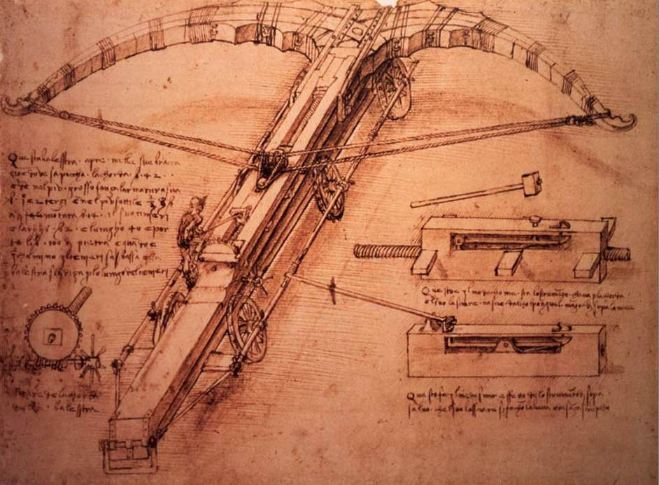 Crossbow sketch. Codex Atlanticus, Fol 149r, Biblioteca Ambrosiana.